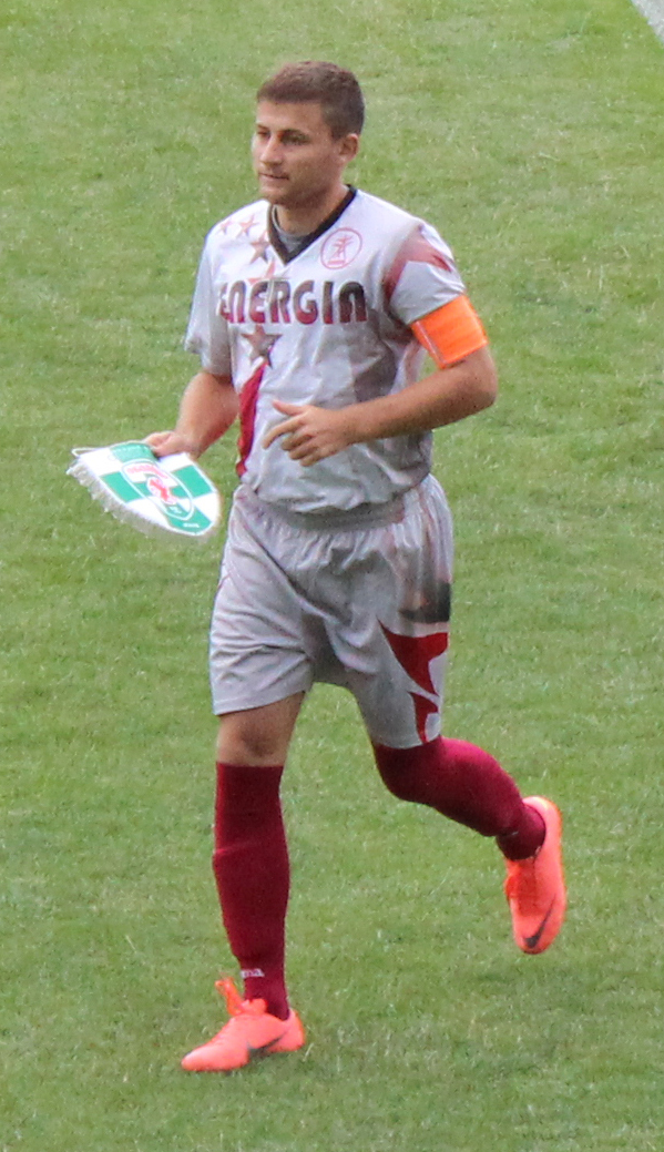 Sergii Grankovsky